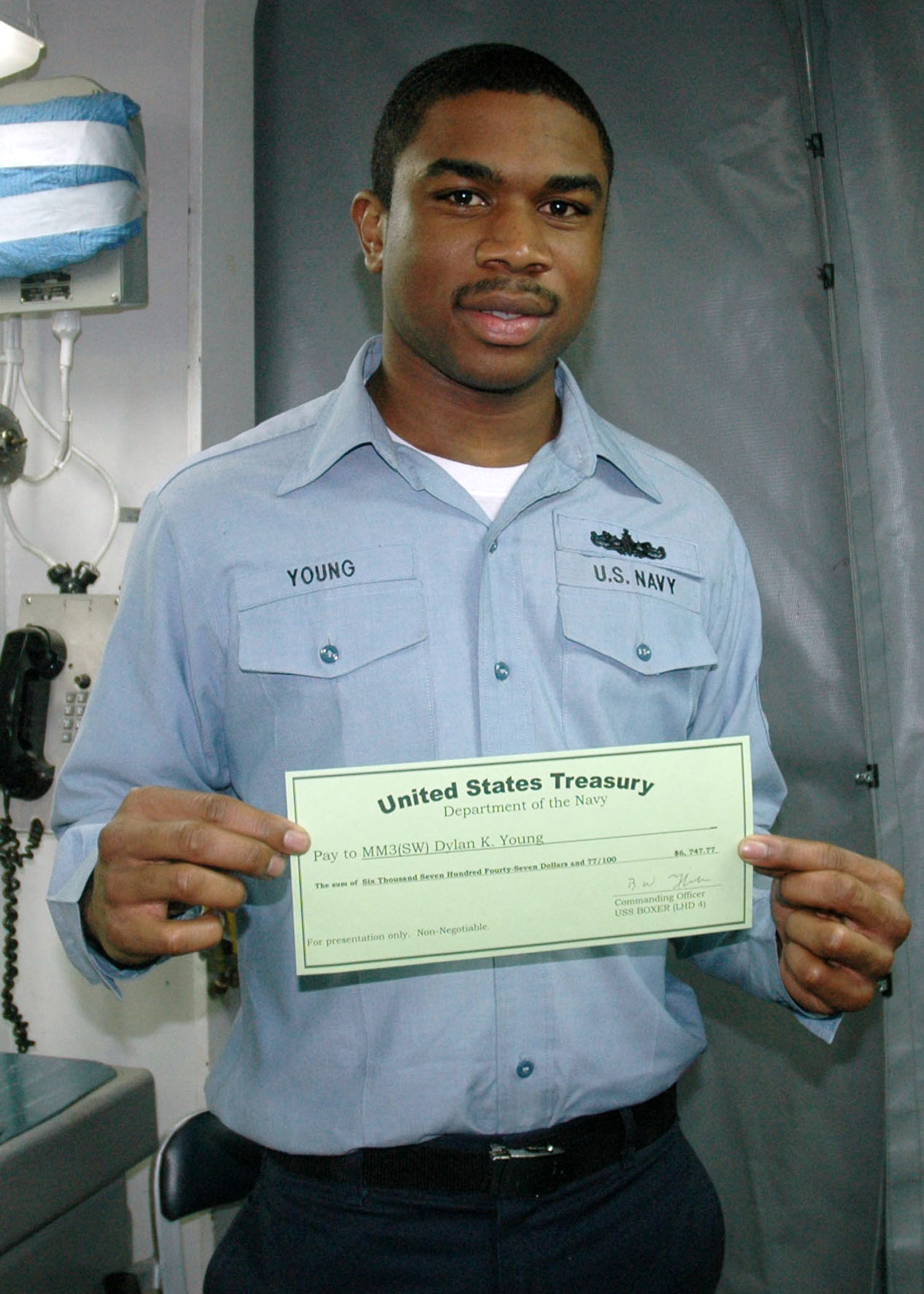 PERSIAN GULF (March 10, 2006) - Machinist Mate 3rd Class Dylan Young assigned to amphibious assault ship USS Boxer (LHD 4) holds his selective reenlistment bonus (SRB) check. SRBs are used as an incentive to retain Sailors with special skills in critically manned jobs. Boxer is the flagship for Boxer Expeditionary Strike Group, which is currently operating in the Persian Gulf conducting Maritime Security Operations (MSO) in support of 5th Fleet. U.S. Navy photo by Mass Communication Specialist 3rd Class James Seward (RELEASED)